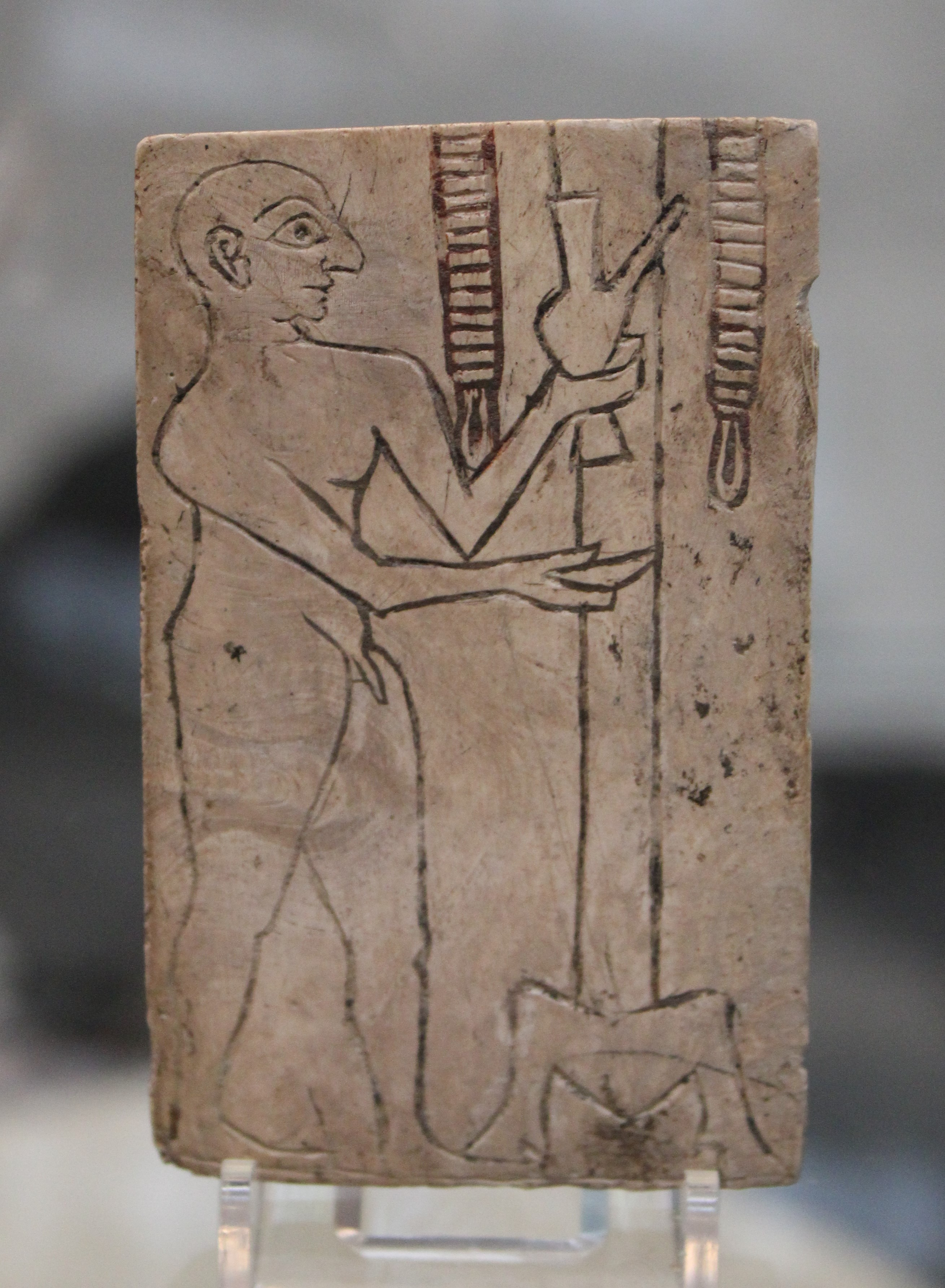 Shell inlay incised with a design representing a standing person (probably a priest), naked, offering a libation in front of a pole. From Ur. Early Dynastic III A (c. 2600-2500 BC). BM 120850.